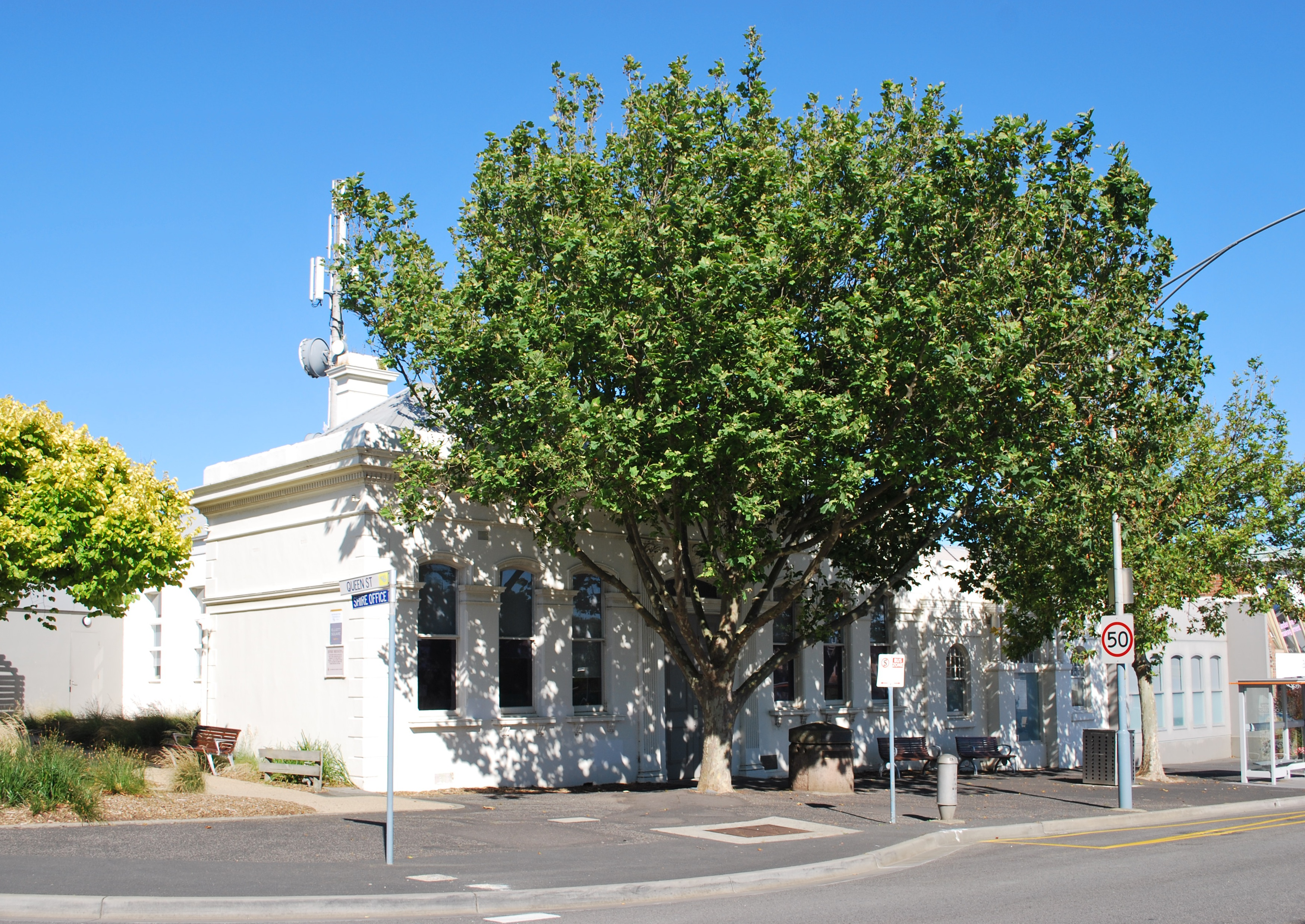 Mechanics Institute at Mornington, Victoria